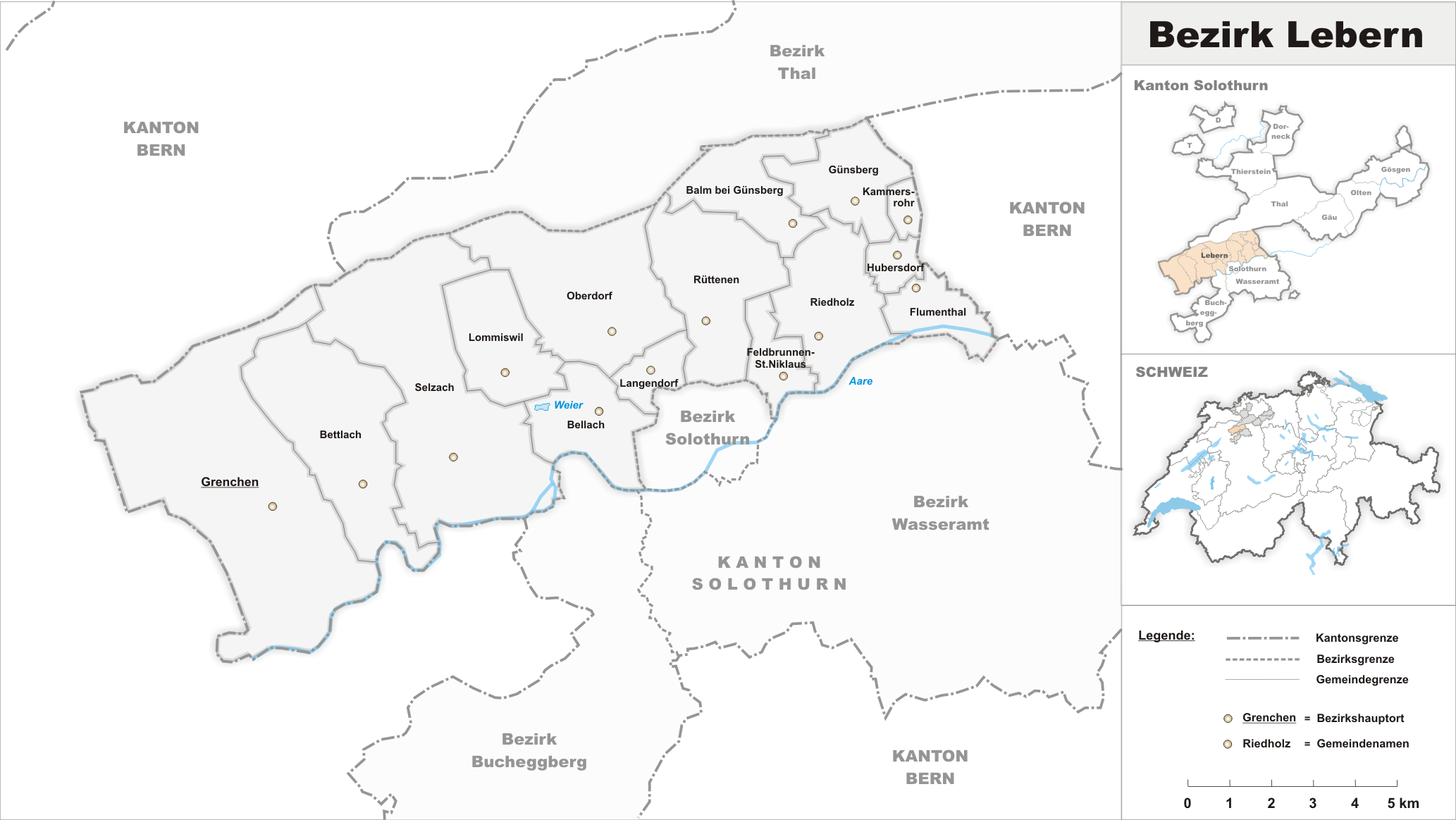 Municipalities in the district of Lebern